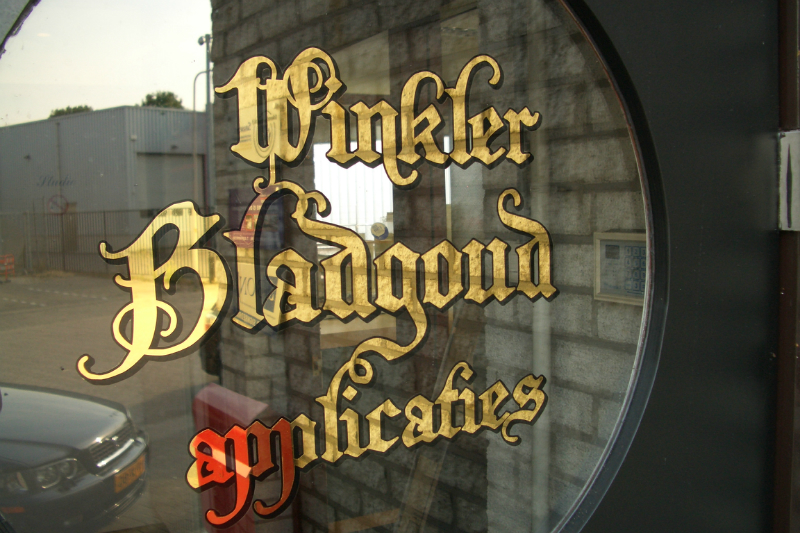 Reverse glass gilded logo with goldleaf